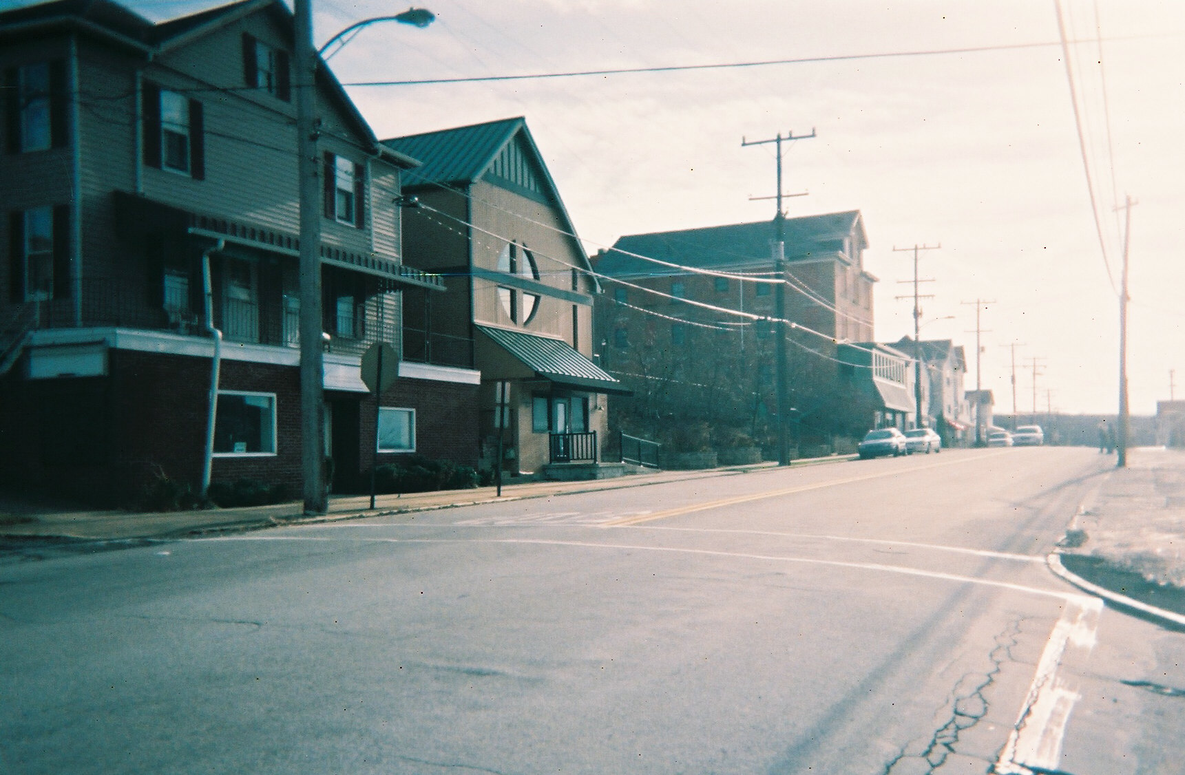 Business district of the Borough of South Greensburg, Pennsylvania. Taken from the intersection of Broad Street and Jamison Avenue, looking southward on Broad Street. The tallest building (yellow brick structure in the distance) is the New Colonial Hotel at 1517 Broad Street.